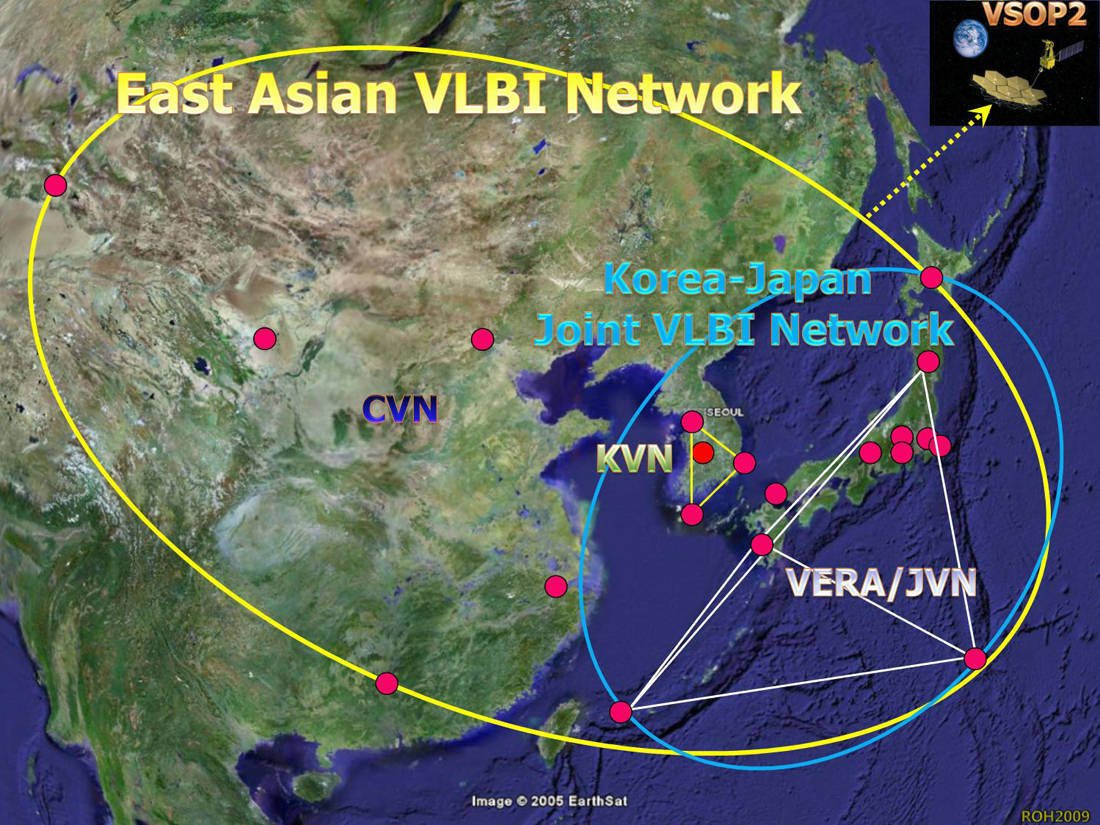 East Asian VLBI Network(